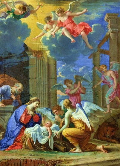 Nativity scene